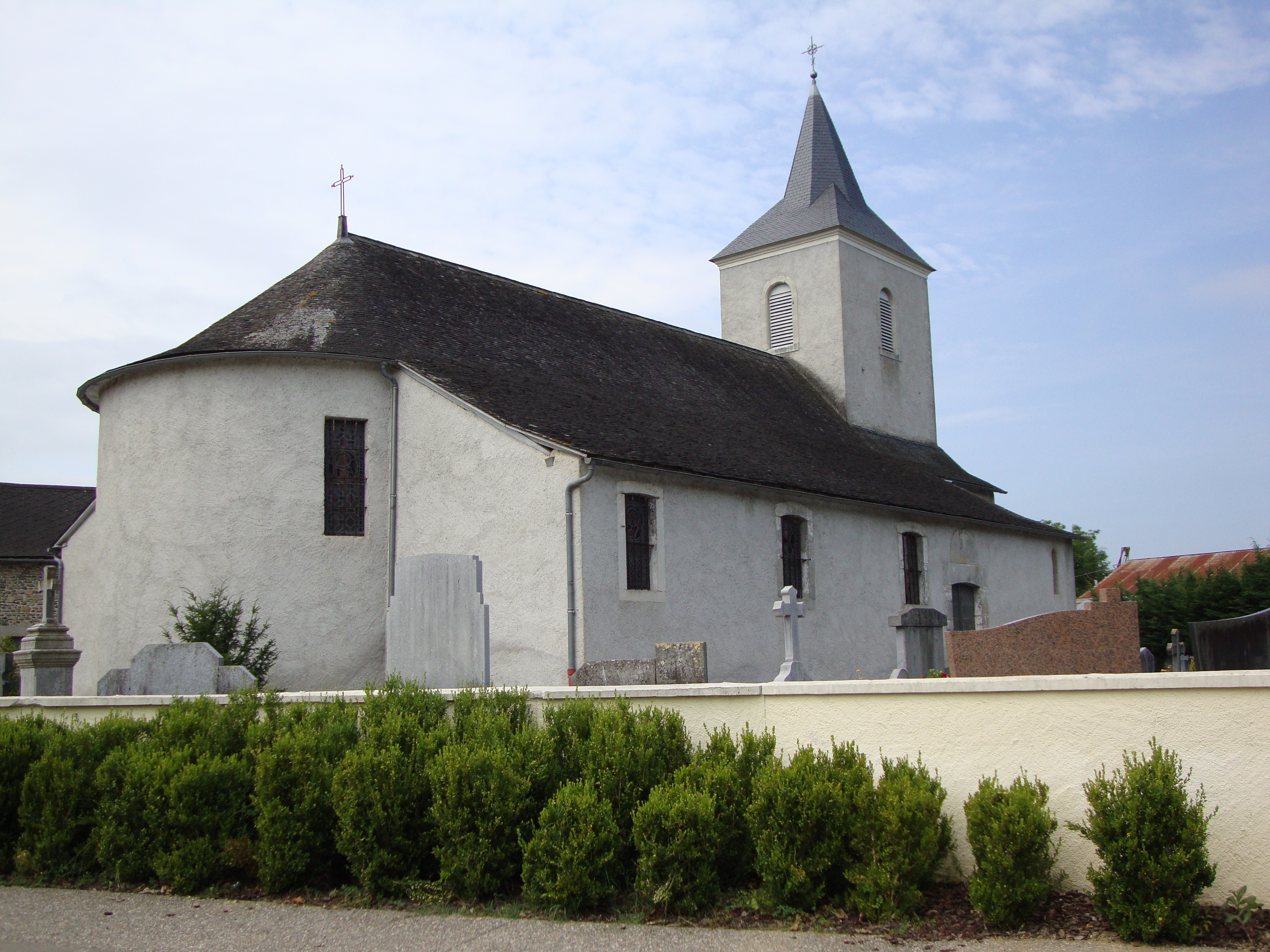 Précilhon (Pyr-Atl, Fr) church with apse